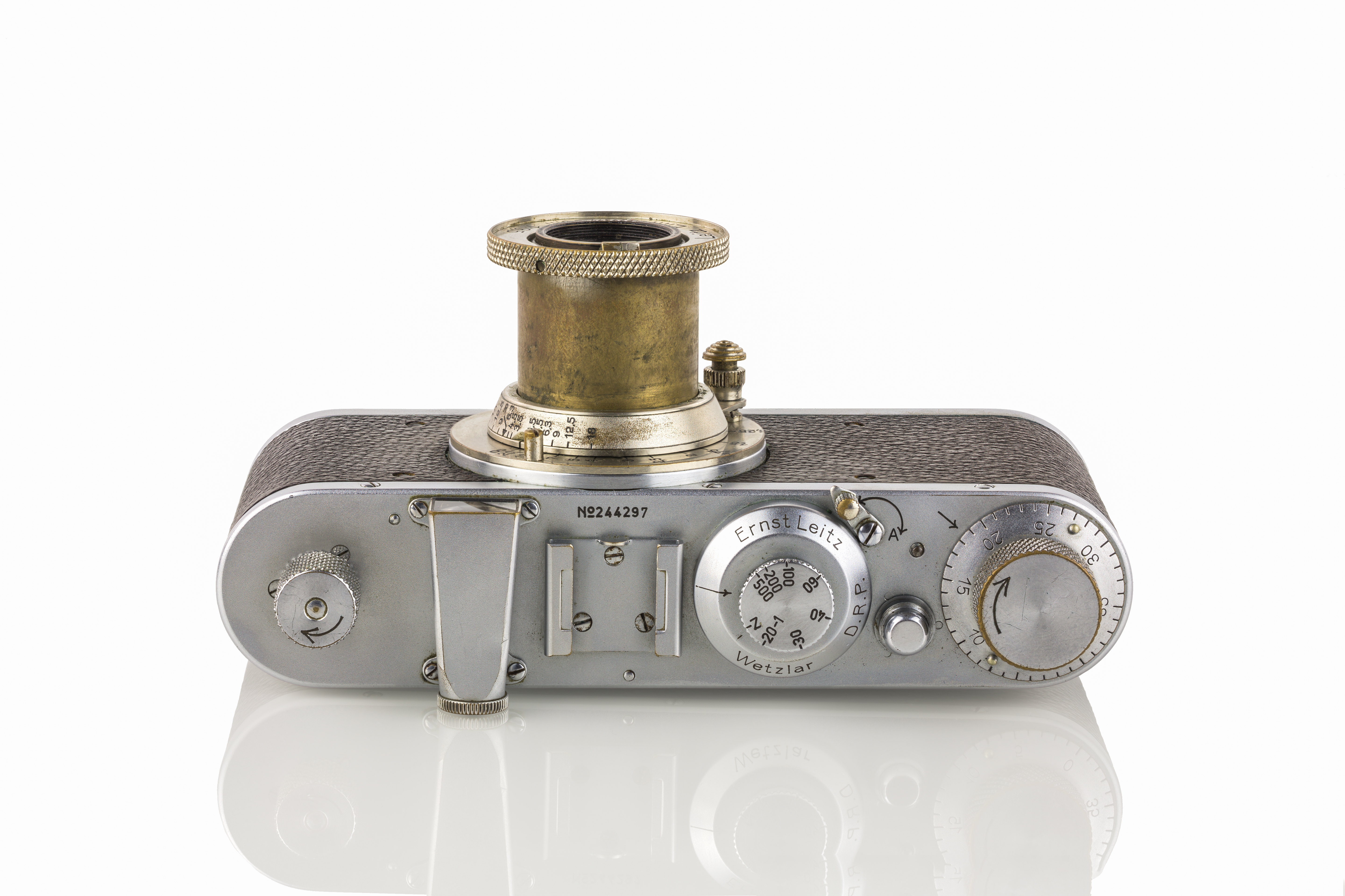 Leica Standard,produce in 1937 to 1938, with Leitz Elmar 50mm f/3.5 lens